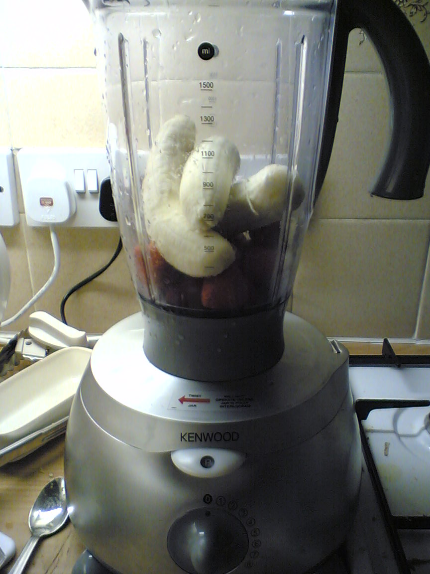 Strawberries and bananas in a blender before being made into a smoothie